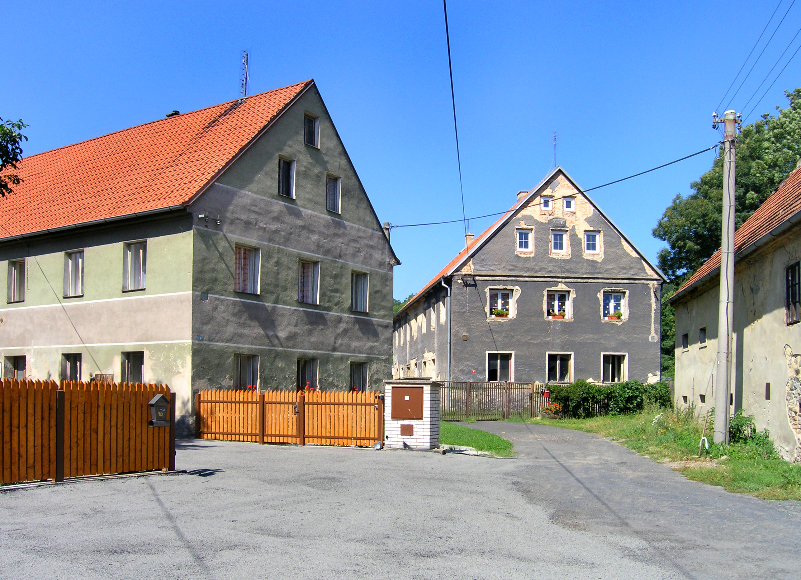 West part of Chudoslavice, Czech Republic